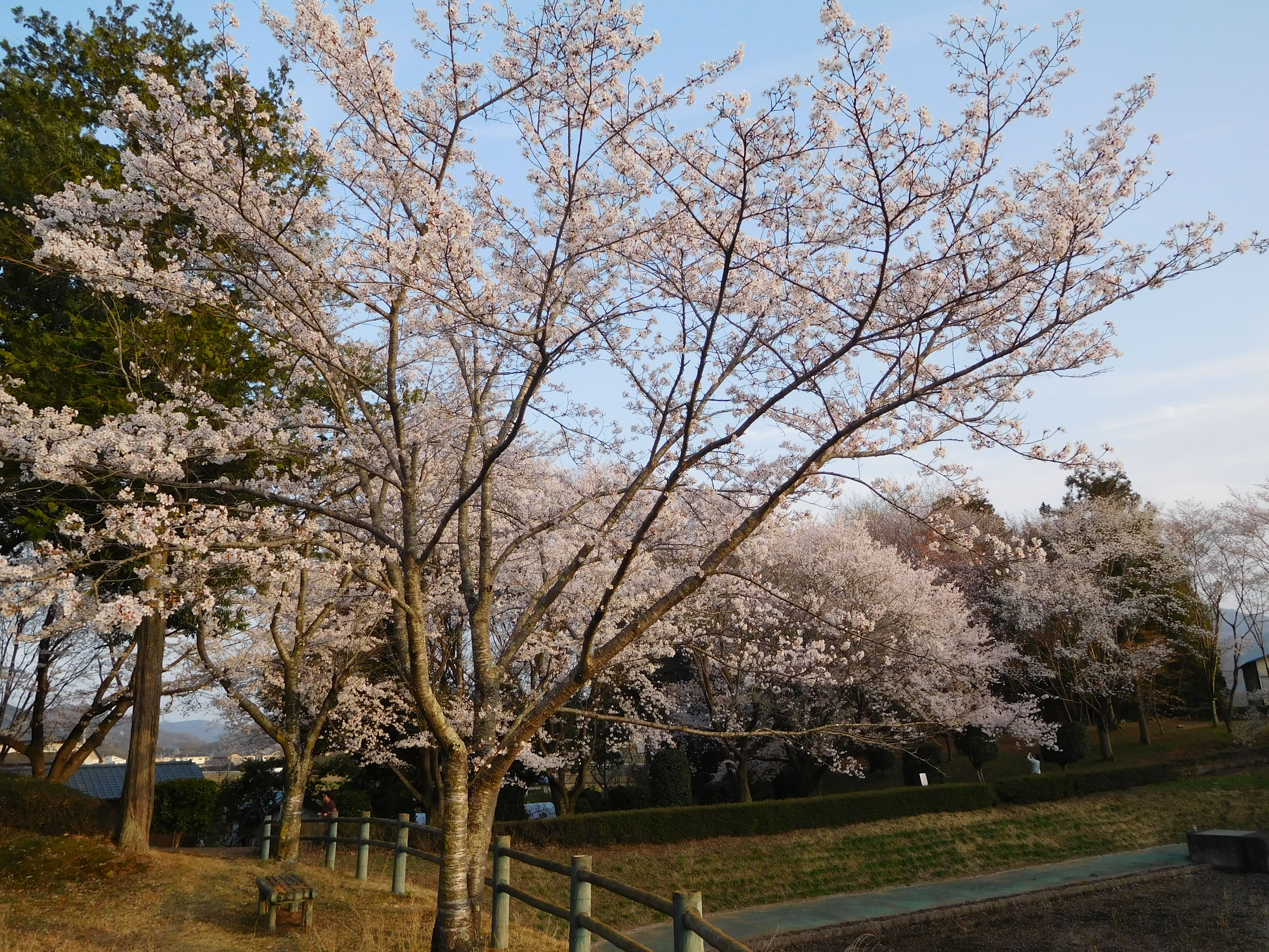 These are cherry blossoms of Sakuragawa, which is located in City of Sakuragawa, Ibaraki, Japan.